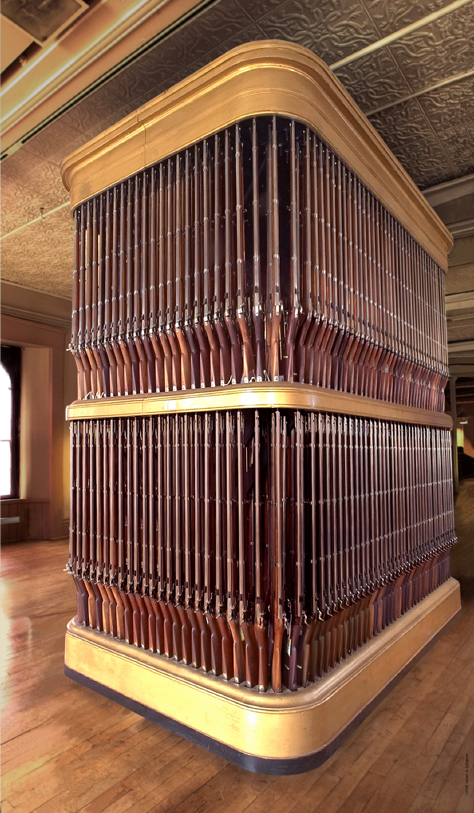 The "Organ of Muskets", one of several racks constructed by craftsmen during the 1830s, so-named for the protest it inspired from Henry Wadsworth Longfellow, who lamented the wastes of war.